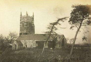 This image was scanned from an original photographic print from the 1870s which was in the possession of the user.